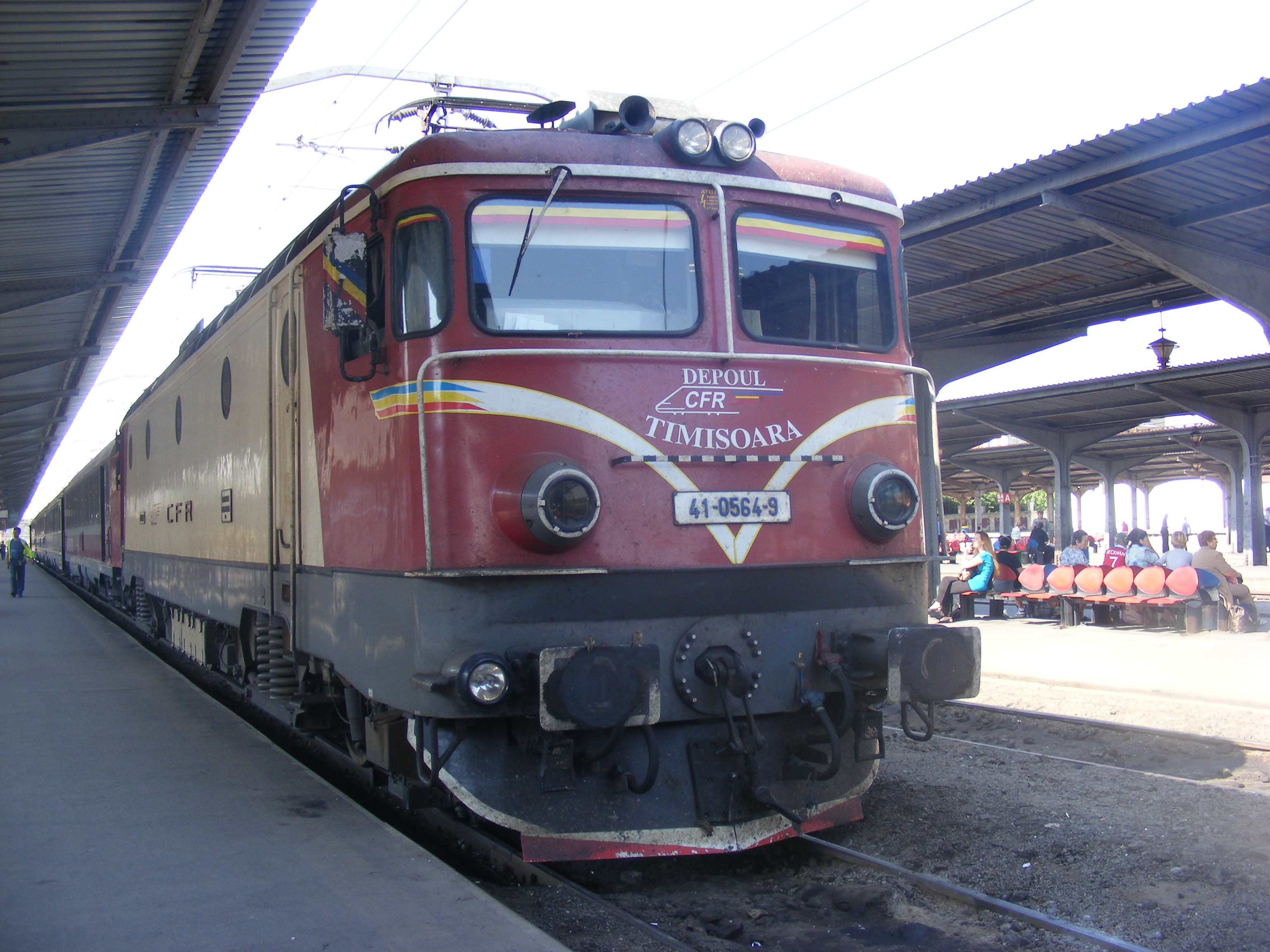 CFR 41-0564-9 of Timisoara depot in Gara de Nord